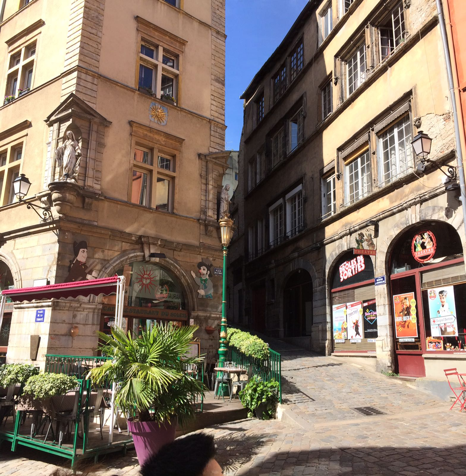 Guignol theatre courtyard in the center of Lyon